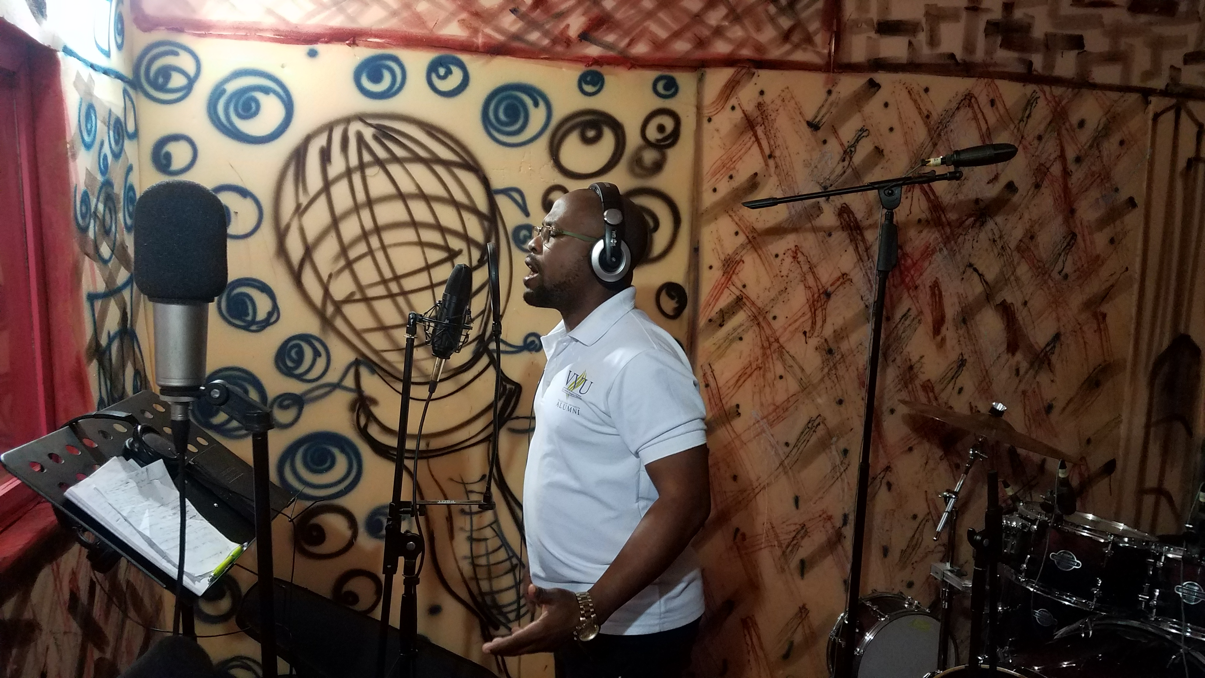 This image depicts a Ghanaian presenter preparing a jingle. This is an image of "African people at work" from Ghana